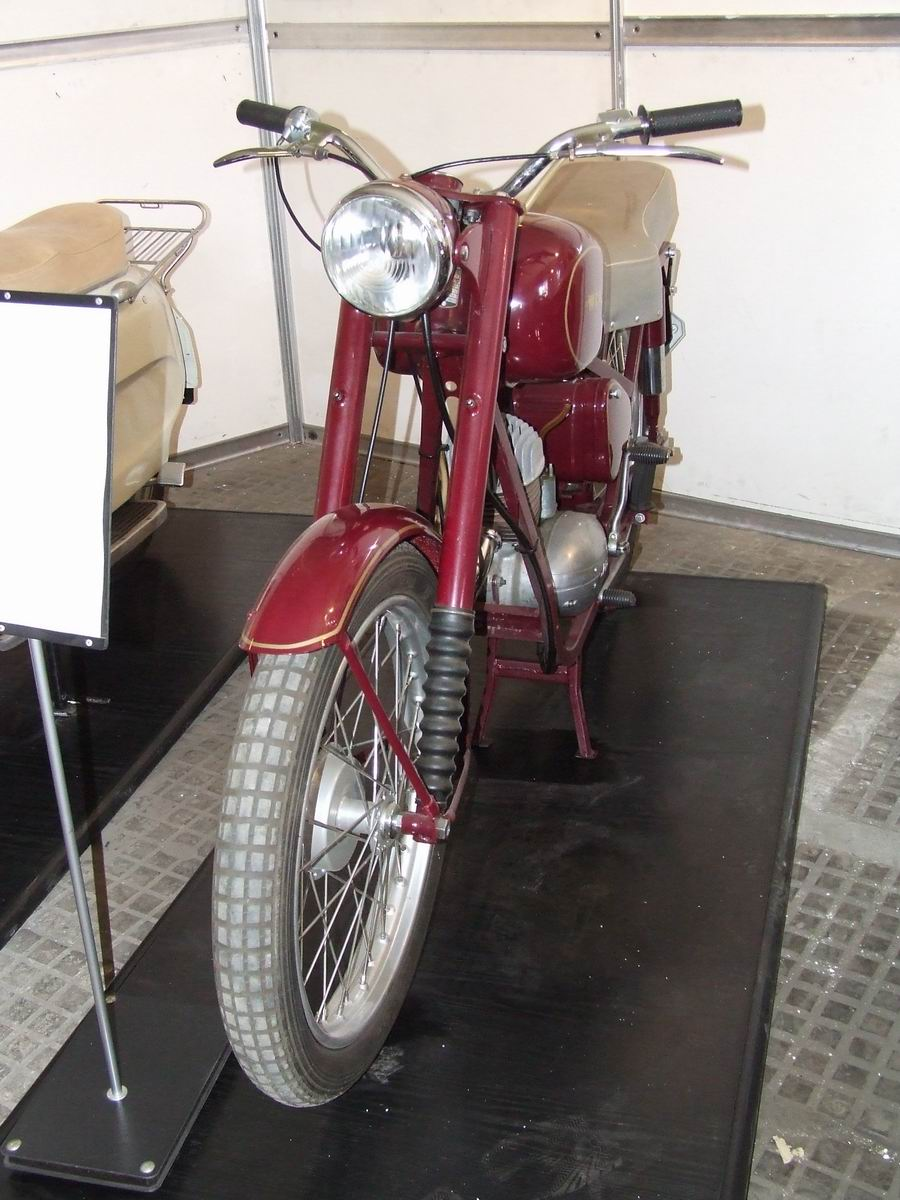 Polish WFM M06 motorcycle, 1952-1966